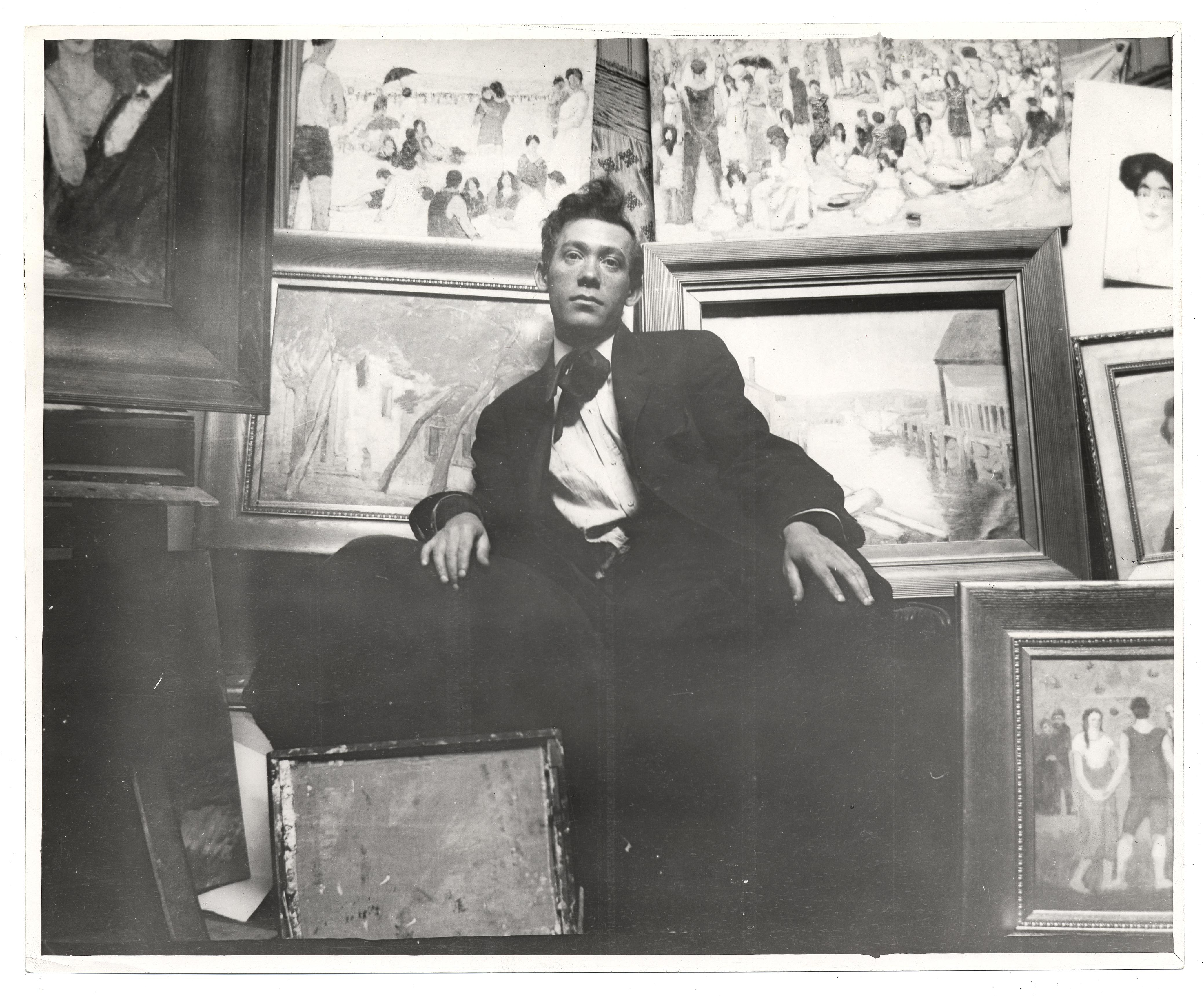 Description: Walkowitz leaning against the wall in his studio, surrounded by paintings on the wall. Identification on accompanying label (typewritten): Abraham Walkowitz (1880-1965). For the decade after the Armory Show, Walkowitz, with Dasburg, O'Keefe, Hartley, and Zorach, revealed the impact of that Exhibition in his work, for they adopted the new techniques and styles, and although not so absorbed as the Europeans in theories, they worked diligently to express the "new modernism." Walkowitz, Abraham, 1880-1965 Creator/Photographer: Carl Shulman Medium: Black and white photographic print Dimensions: 21 cm x 26 cm Date: 1908 Persistent URL: Repository: Archives of American Art Collection: Abraham Walkowitz papers, 1904-1966 Accession number: aaa_walkabra_4945